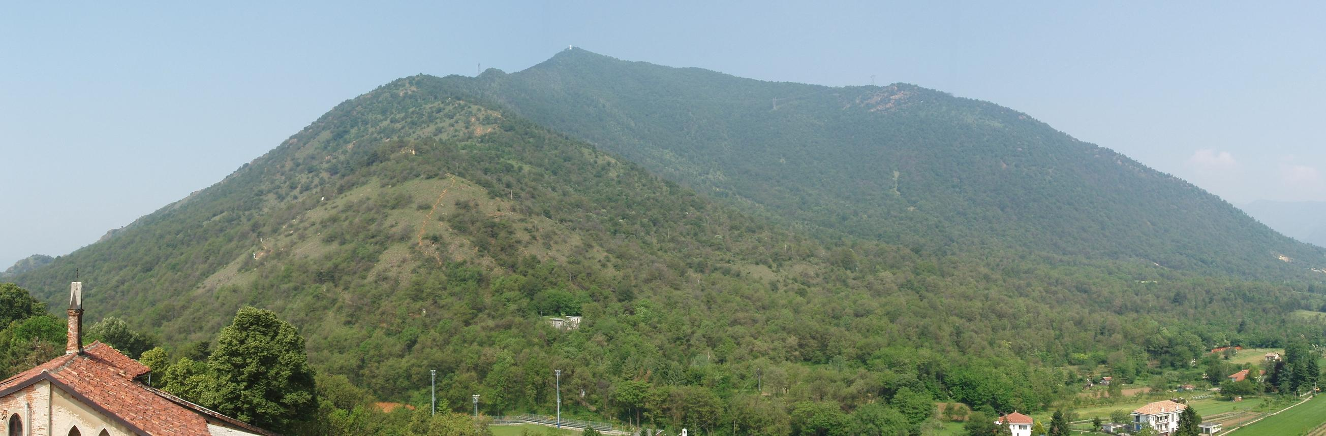 Panoramica del Musinè dalla torre del castello Cays, Caselette (TO) This is a photography of Natura 2000 protected area with ID IT1110081